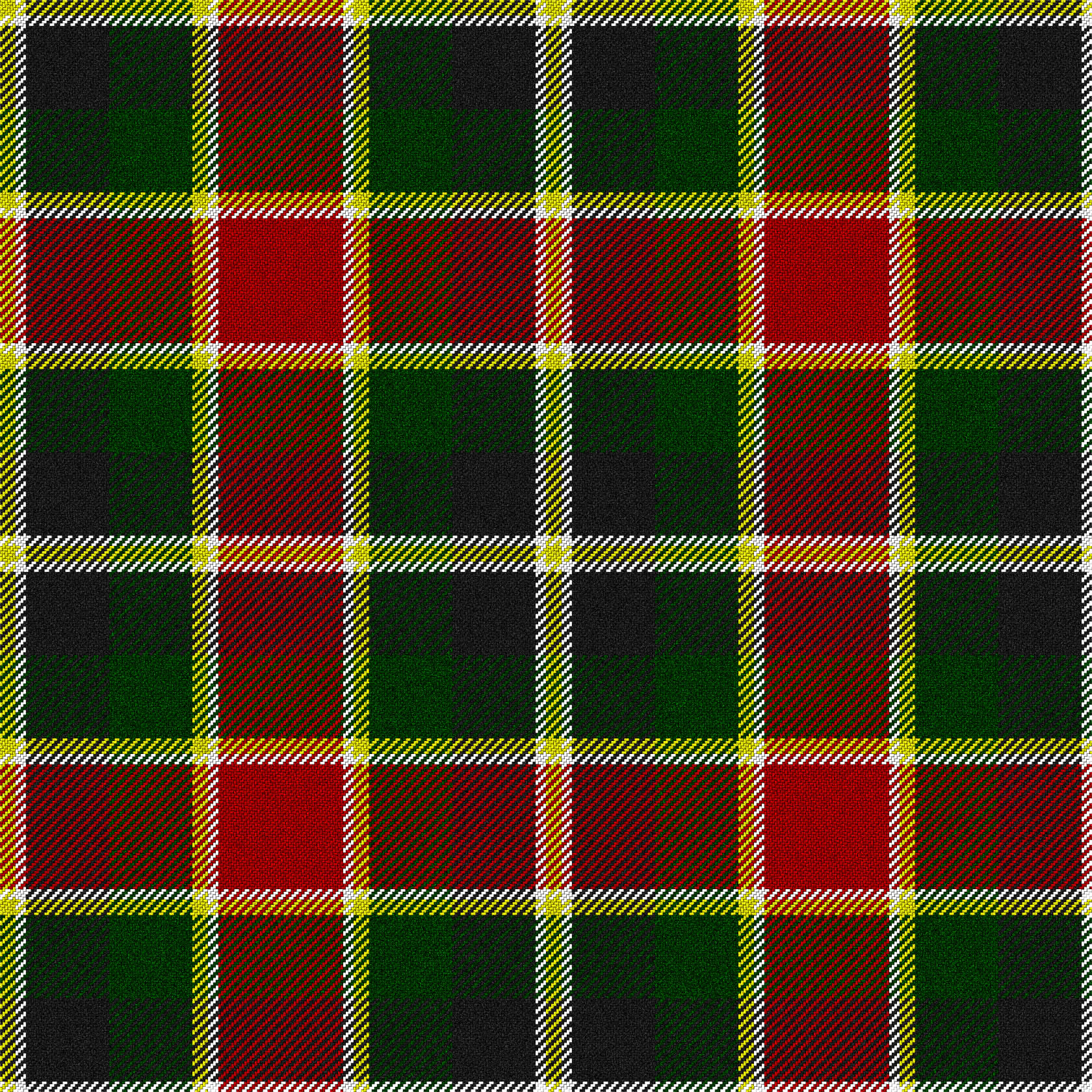 A representation of the Maclachlan hunting tartan. This tartan is the oldest tartan to bear the name MacLachlan. This tartan is referred to as the Old MacLachlan, MacLachlan, and Hunting MacLachlan. This sett was first published in Old & Rare Scottish Tartans by D. W. Stewart in 1893. Thread count: Y6, W4, Bk32, G32, Y6, W4, R48. Sources: MacLachlan Clan Tartan WR1710 MacLachlan Hunting Tartan